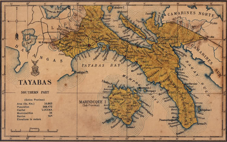 Map of southern Tayabas Province, Philippines in 1918